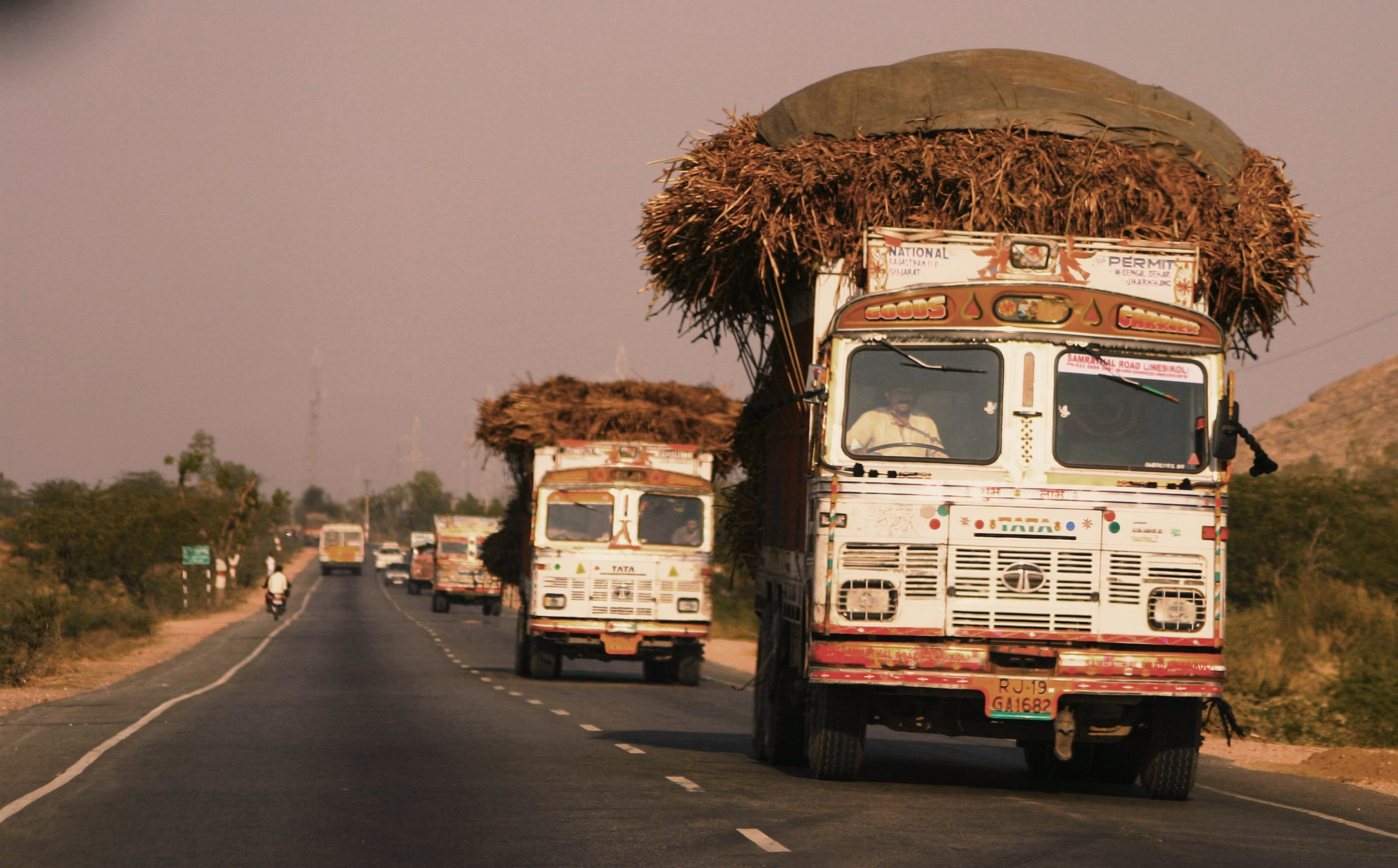 Heavy Duty